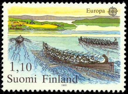 Postage stamp depicting large Finnish rowing boats.